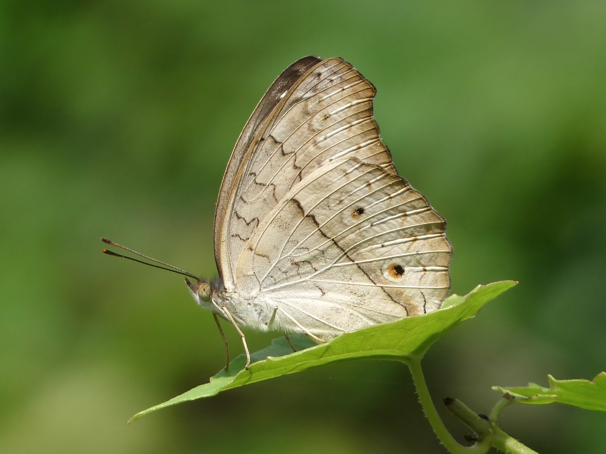 The Gray Pansy or Grey Pansy (Junonia atlites) is a species of nymphalid butterfly found in South Asia. Taken at Kadavoor, Kerala, India.